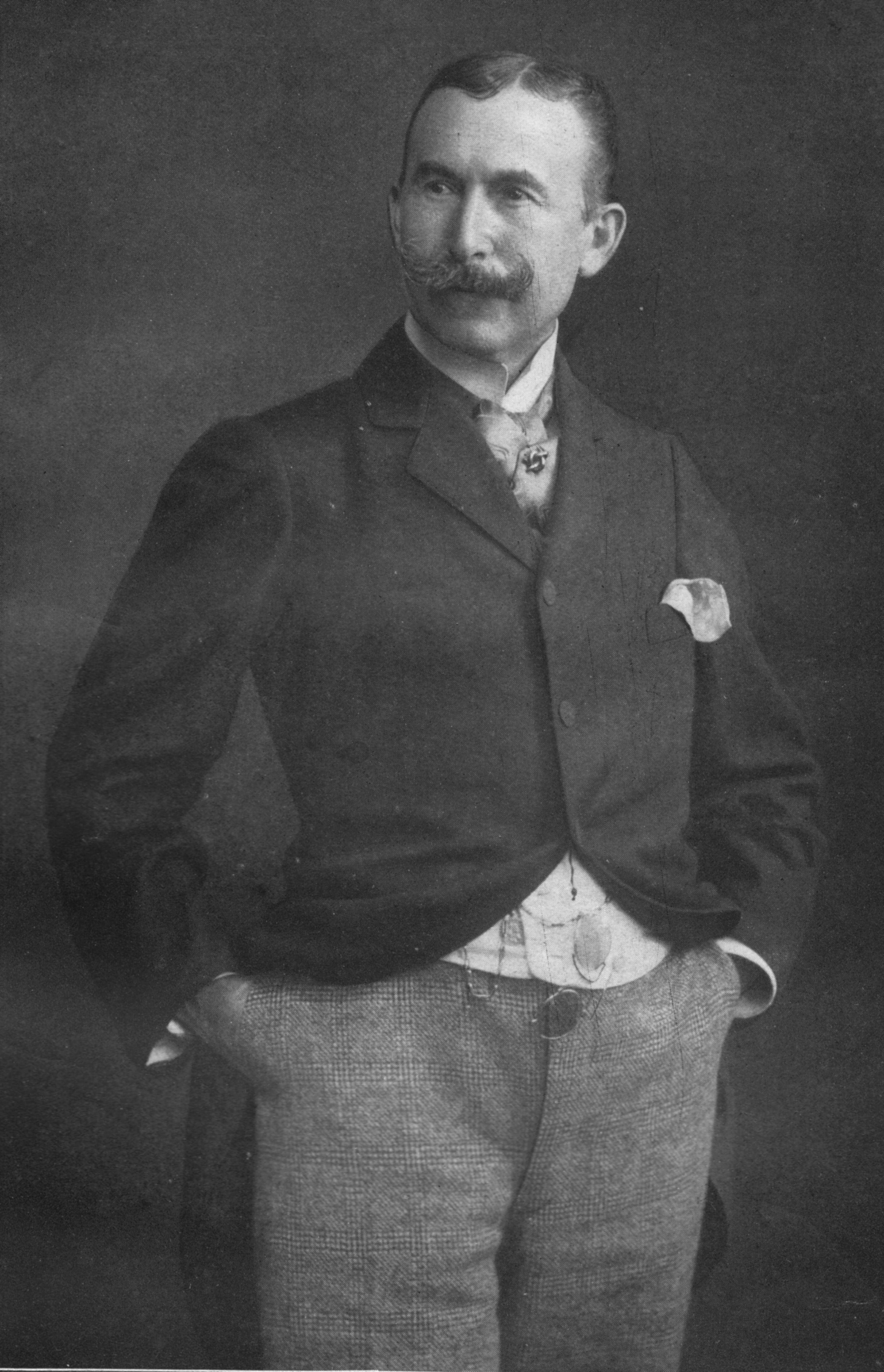 Painter Nathaniel Sichel